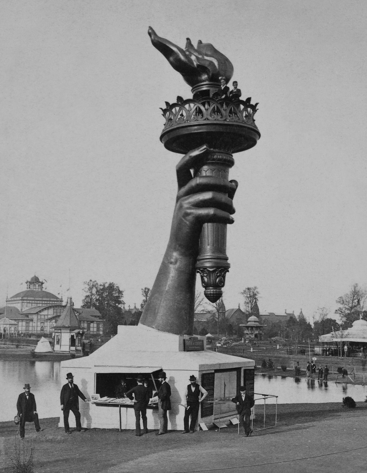 Statue of Liberty Arm, 1876, Phildadelphis Centennial Exposition.